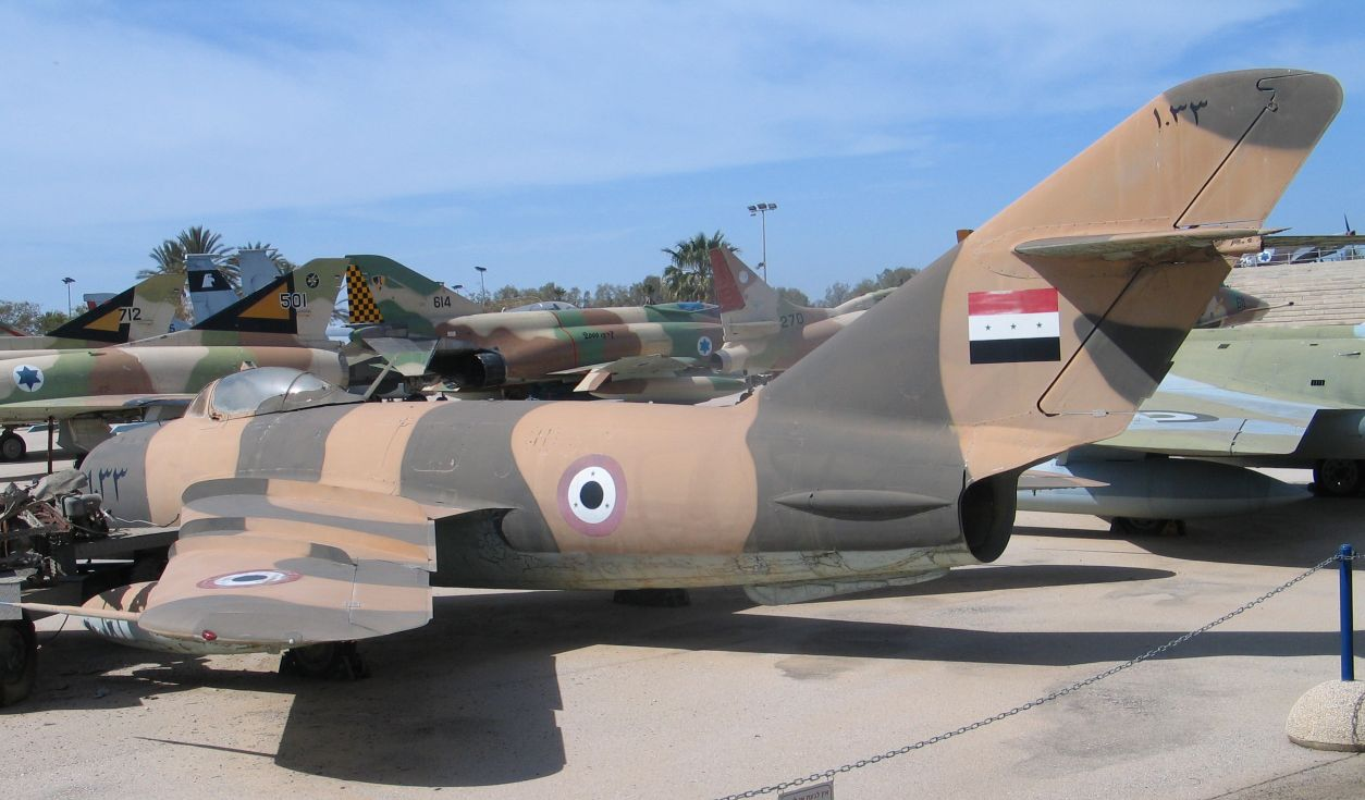 Description: MiG-17 at Muzeyon Heyl ha-Avir, Hatzerim airbase, Israel. 2006. Source: Photo by me, User:Bukvoed.